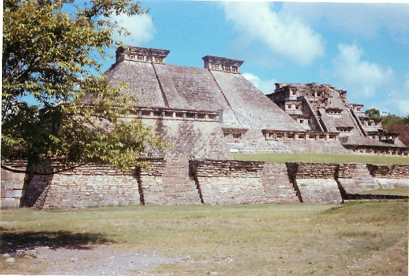 El Tajín Structure #5